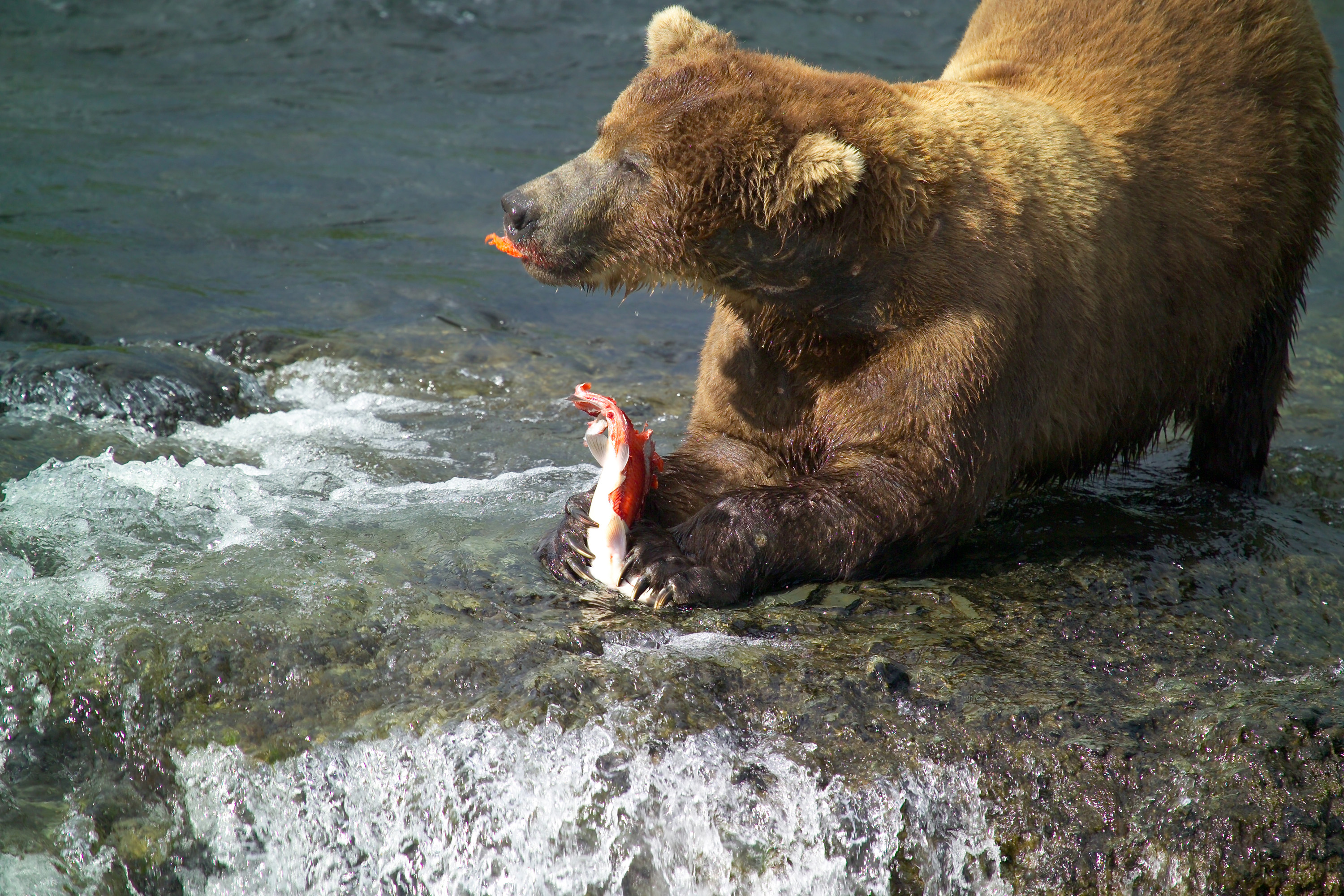 Male brown bear eating fat rich salmon skin. "Bears higrade the best fat rich parts of a salmon (skin, brain, roe) to eat first and may only eat the fat rich parts when salmon are plentiful"[1]